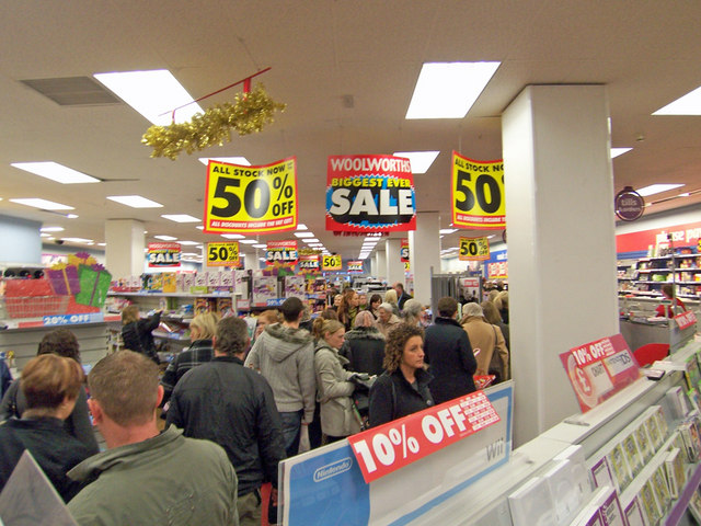 Woolworths Closing-down Sale, Grimsby. The body of this Woolworths store is situated between a frontage to Victoria Street West 1076887 and one onto the Baxtergate Mall of the Freshney Place Retail complex 1076902. Picture taken on on the first day of the December 2008 closing-down sale. As can be seen from the photo the shop is crowded with customers seeking a bargain.